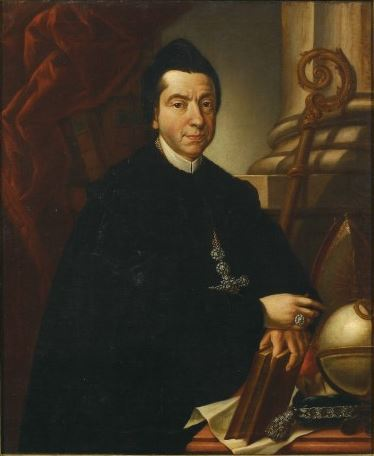 Coelestin II. Steiglehner, last prince-abbott of St.Emmeram's Abbey